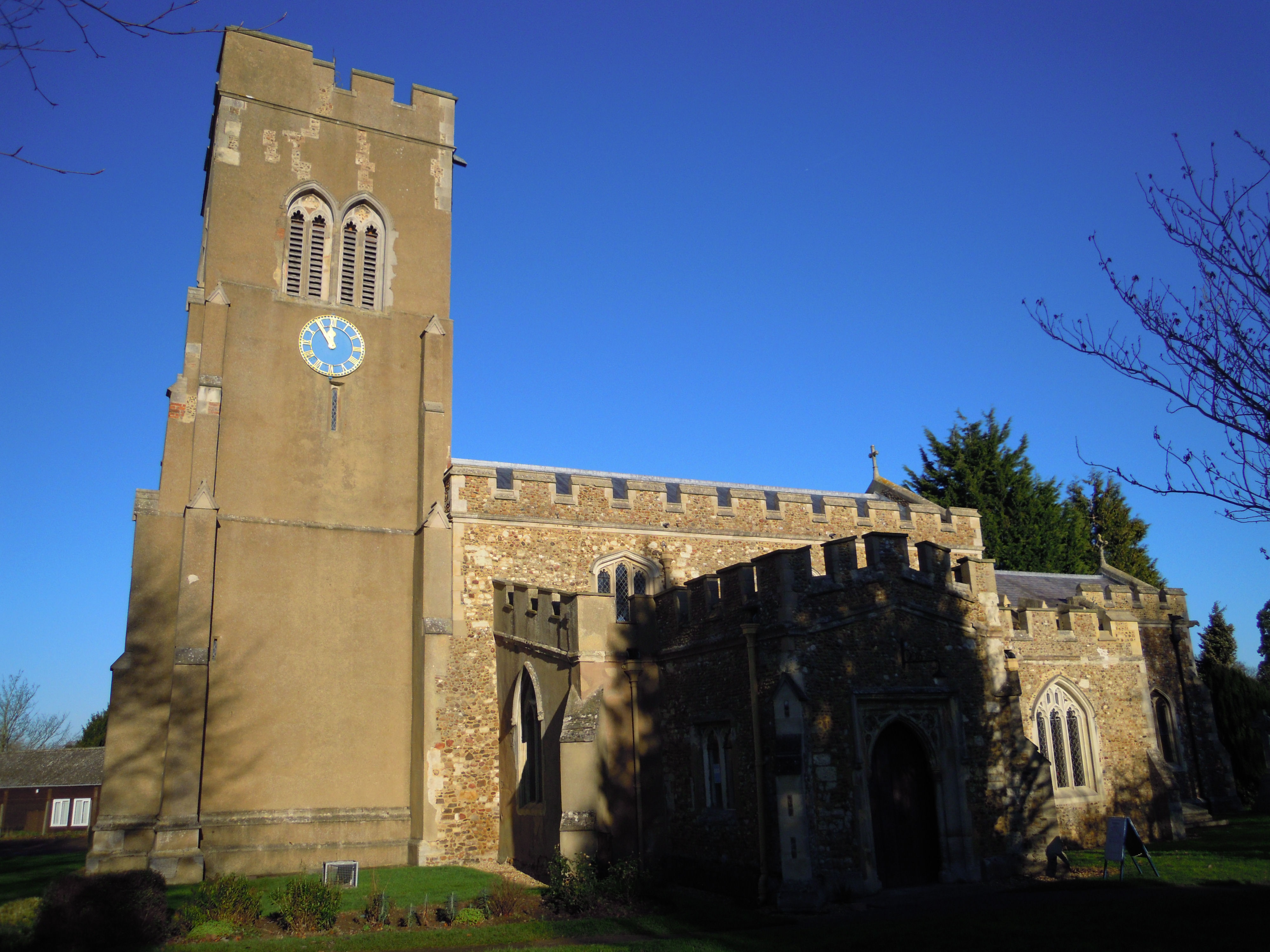 St Mary's parish church, Stotfold, Bedfordshire, England seen from the south